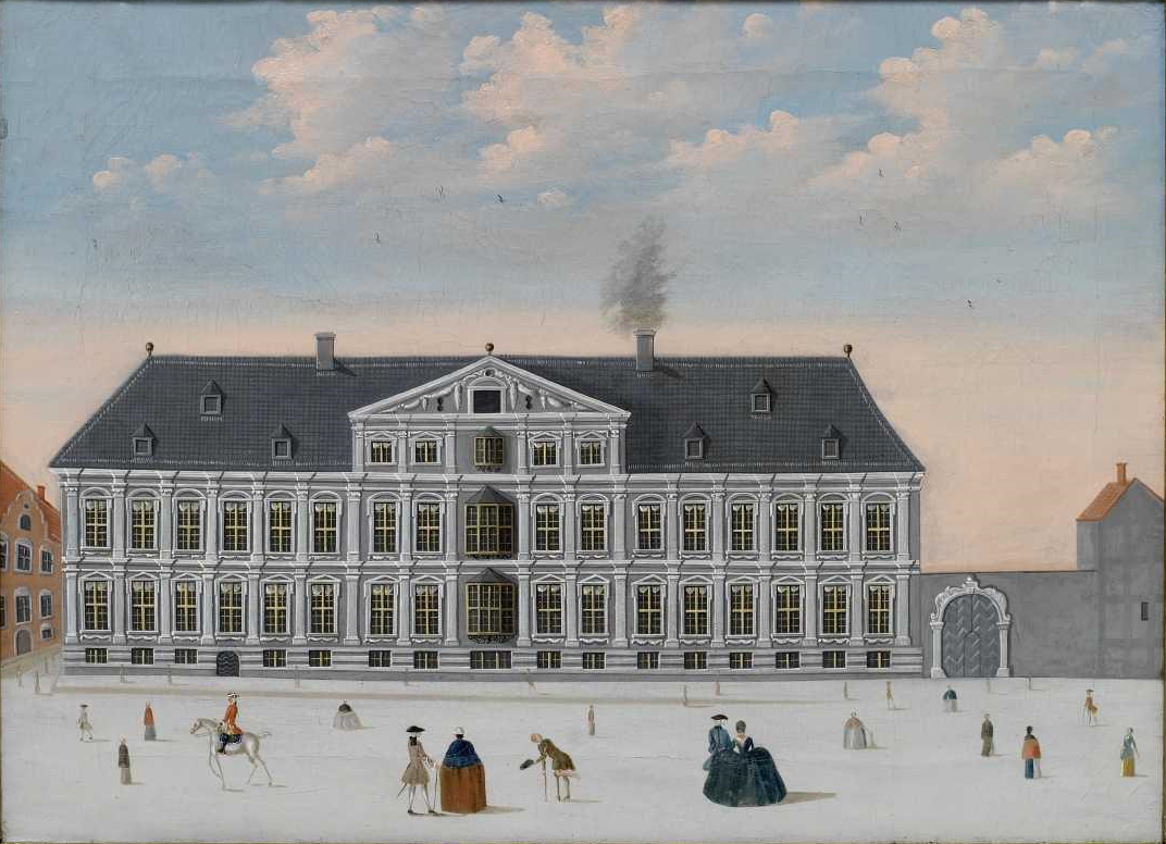 Geheimeraad Grams Gaard on Kongens Nytorv in Copenhagen, Denmark. It was demoliched after various changes in 1872. It was located at the site where Hotel d'Angleterre stands today.